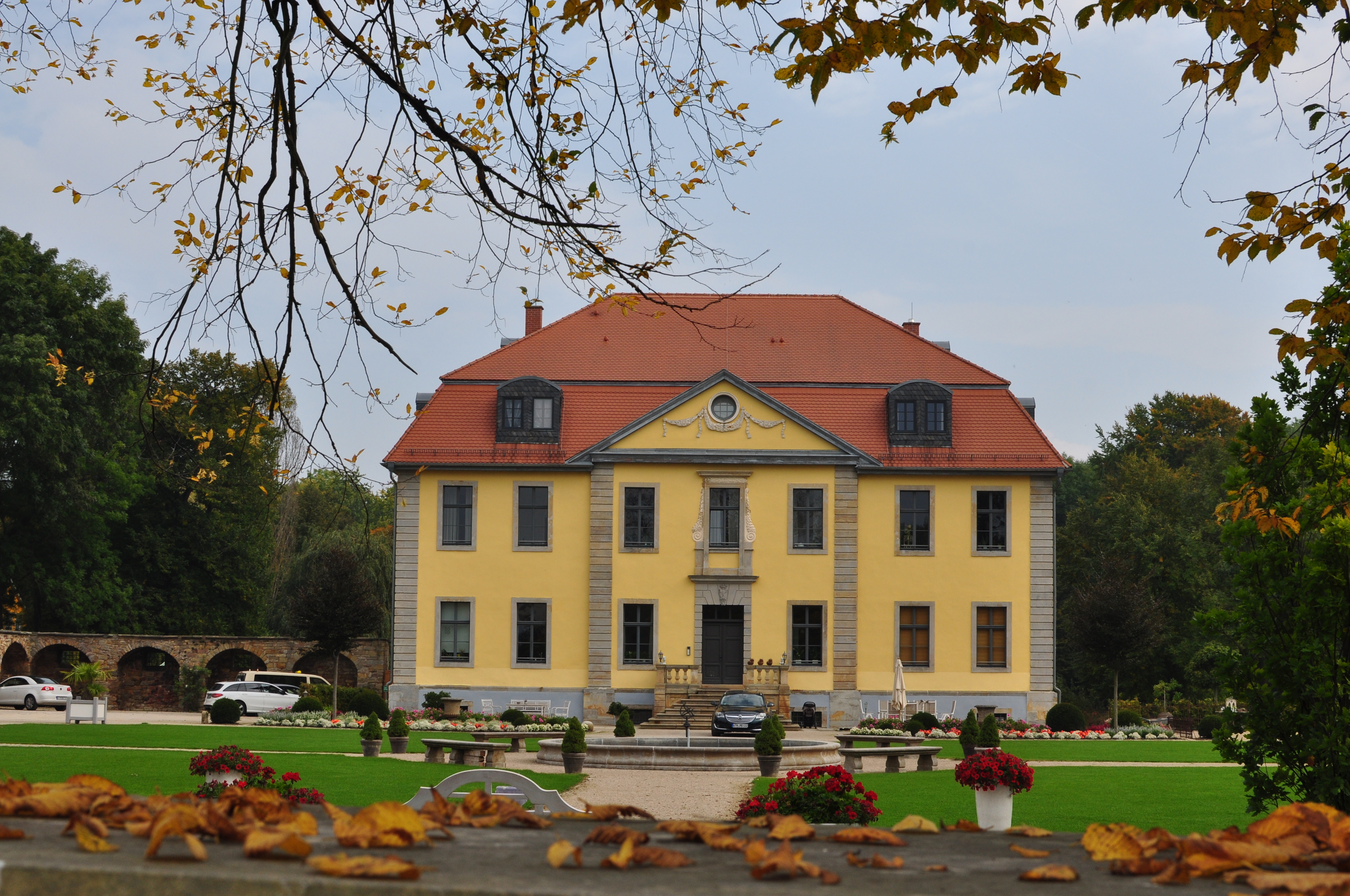 Schloss Mönchhof